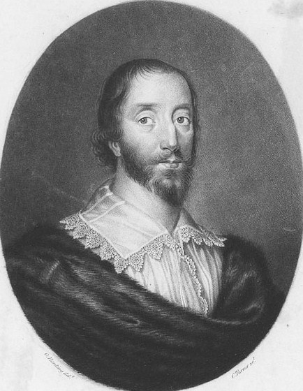 Cropped version of Sir Dudley Digges portrait